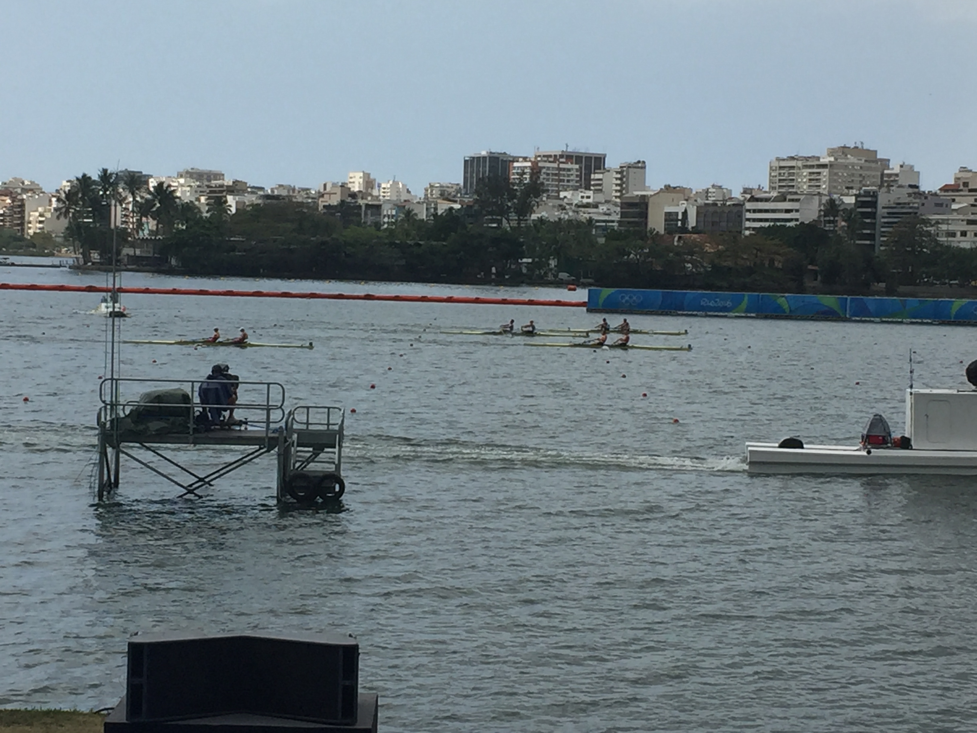 Rio 2016 Olympics - Rowing 8 August